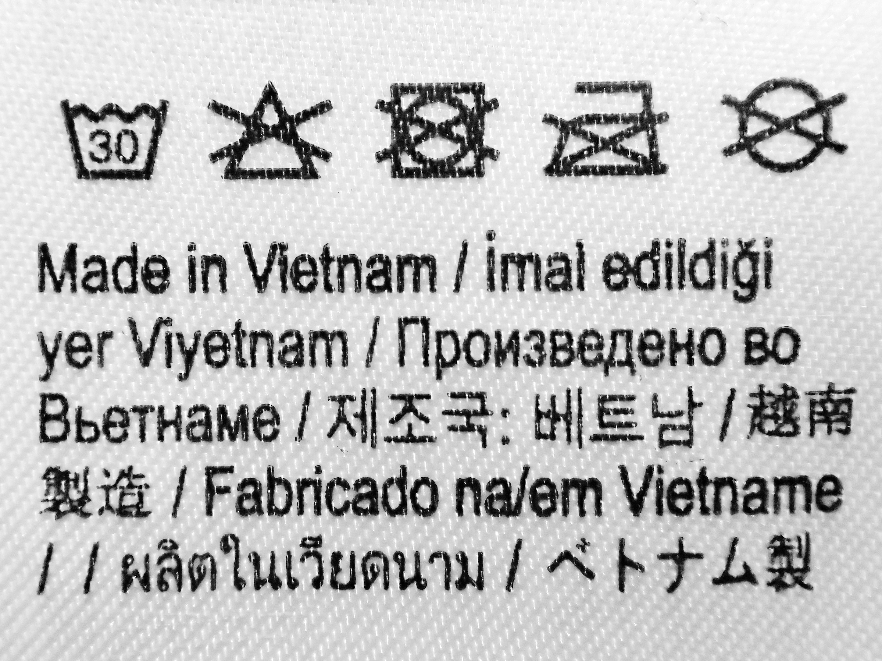 Multilingualism cloth label : 8 languages abd 6 writing system